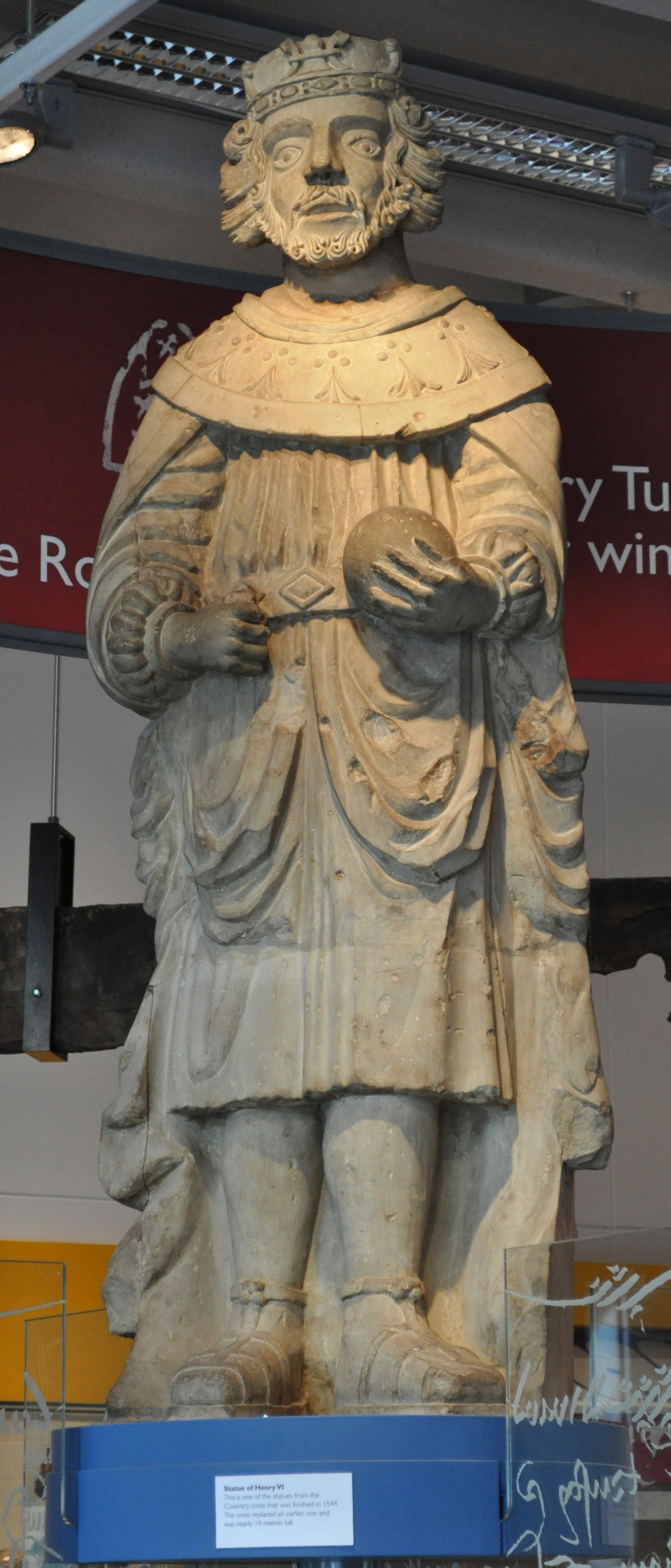 Photograph of a statue of Henry VI. This statue was originally part of the Coventry Cross which was finished in 1544. As of August 2011, it is on display at the Herbert Art Gallery & Museum in Coventry, England.